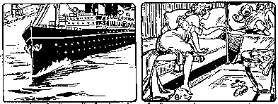 Last two panels of File:A French Nurse's Dream.jpg, crop and adjusted for contrast, Cartoon from Hungarian humor magazine Fidibusz found by Sándor Ferenczi in 1911